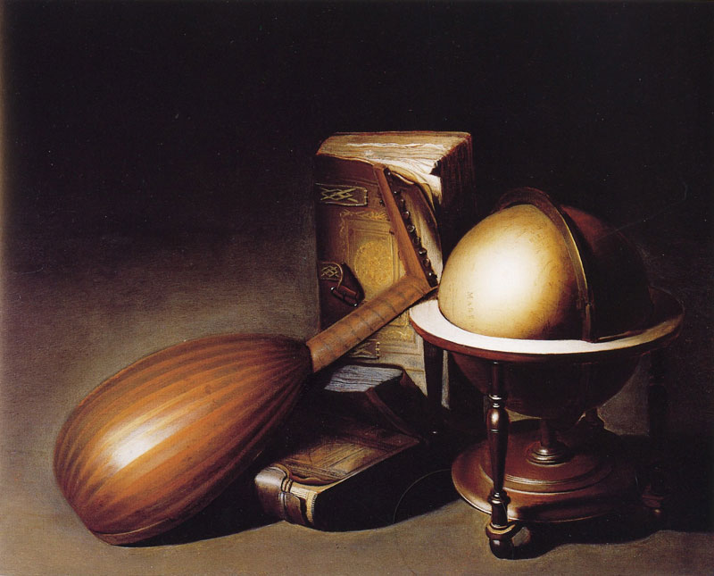 Still life with a globe, books, and a lute